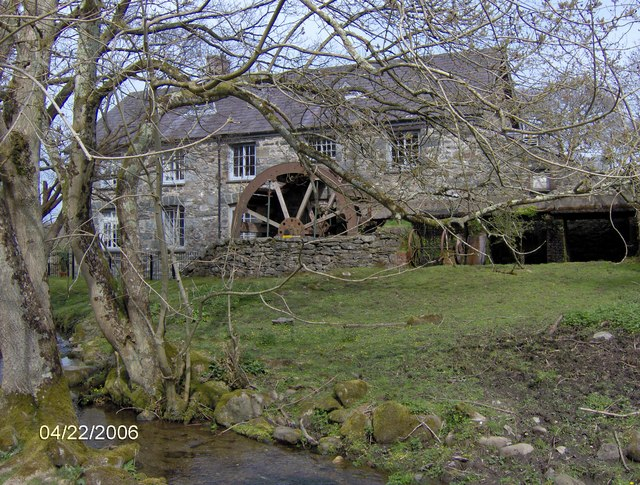 Cochwillan mill on the river Ogwen Built as a fulling mill 200 years ago later converted to grind corn,barley and oats.Most machinery remains including water wheel,mill stones and drying kiln.